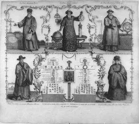 description : illustration de la mission chinoise des jésuites Provenance : Portraits gravés in P. DU HALDE, Description géographique … tome 3. Paris, MAE, Bibliothèque. origine web : Figures shown from left to right:Top: Matteo Ricci, Johann Adam Schall von Bell, Ferdinand VerbiestBottom: Xu Guangqi, colao or Prime Minister of State; Candide Hiu, grand-daughter of Colao Paul Siu. Also see Image:Le Pere Ferdinand Verbiest.gif, enlarged image of top-right figure.